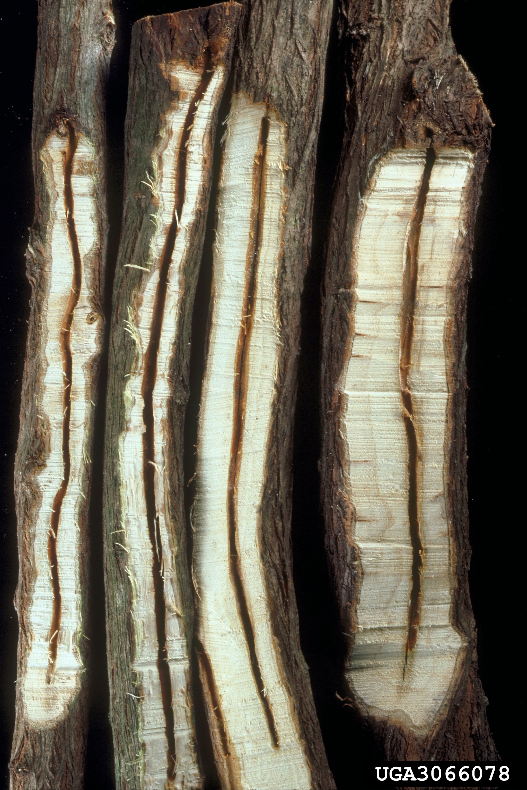 Oidaematophorus balanotes